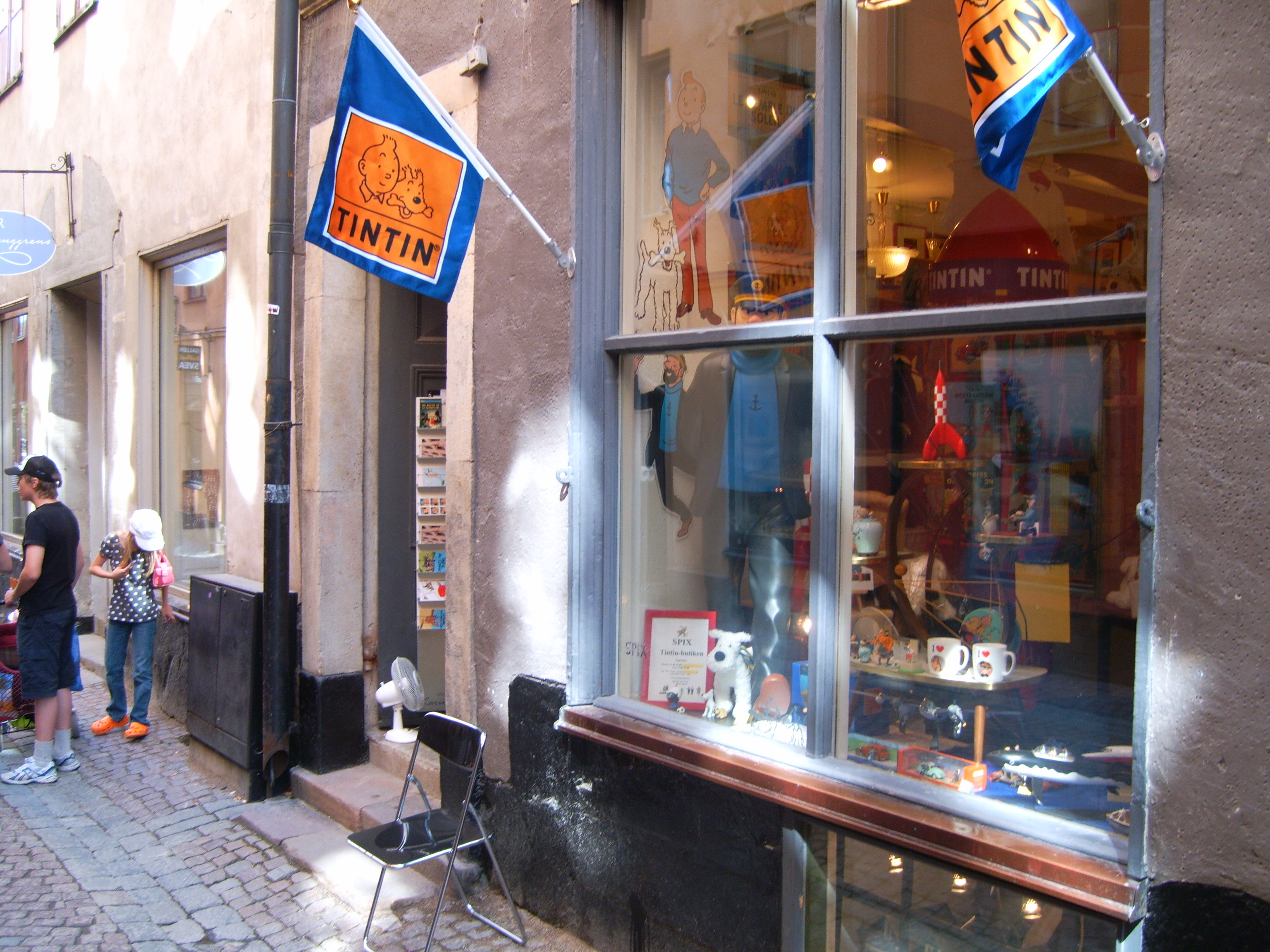 The former Tintin-shop in Gamla Stan, Stockholm, Sweden. In Old town of Stockholm, Tintin can be found in Officemakers shop, Stora Nygatan 27. The biggest Tintin-shop in Sweden is still ARTMAKERS in Visby, Gotland, at Adelsgatan 45.